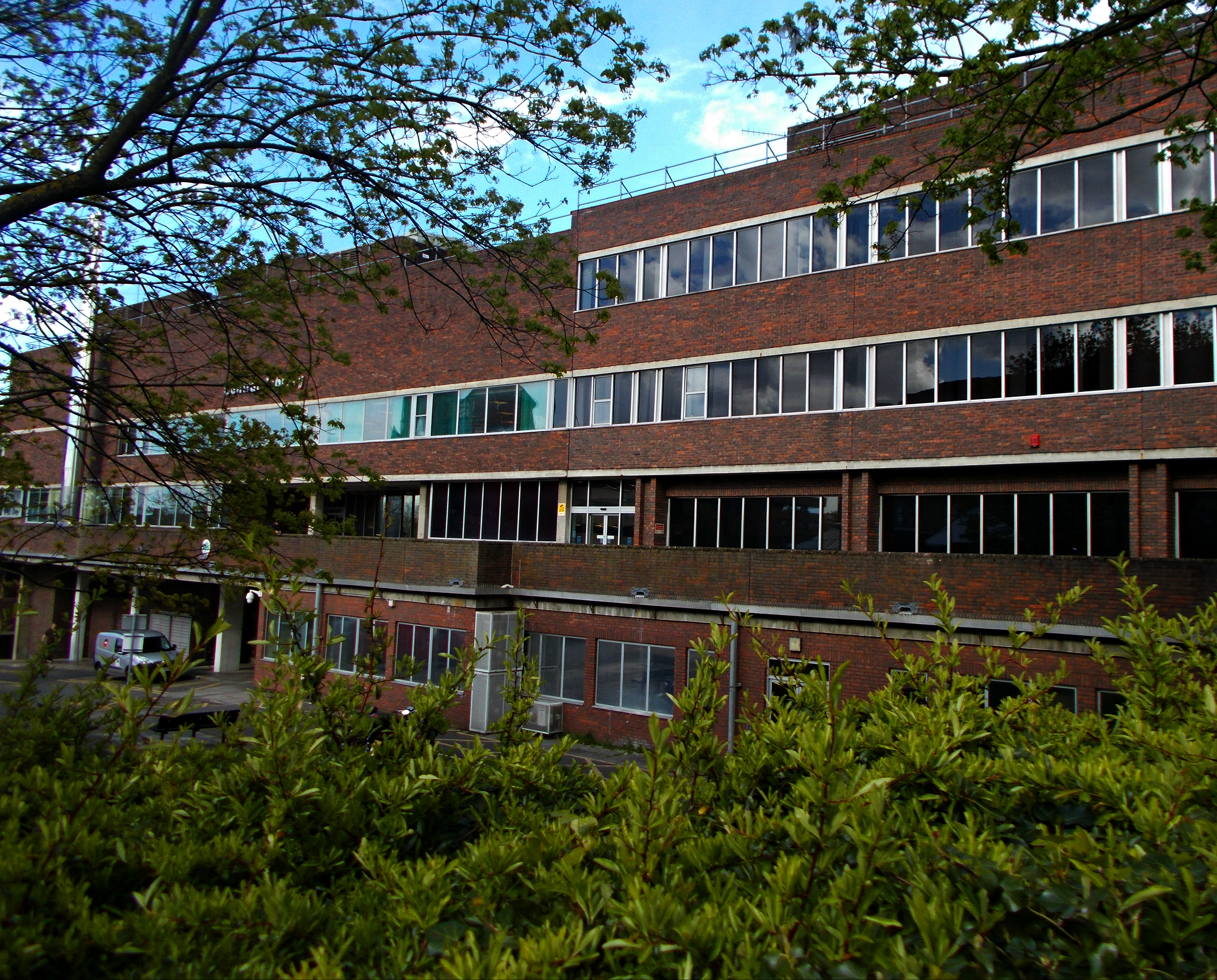 Sutton is town in outer London, 10 miles from central London.